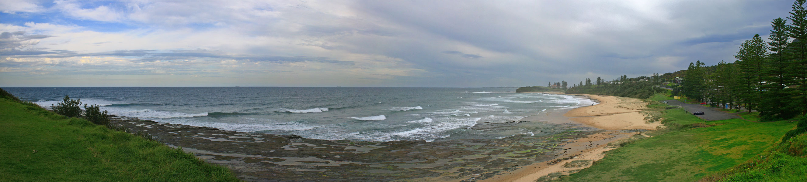 A panorama overlooking Coledale beach facing south in the direction of Headlands Hotel, Austinmer.